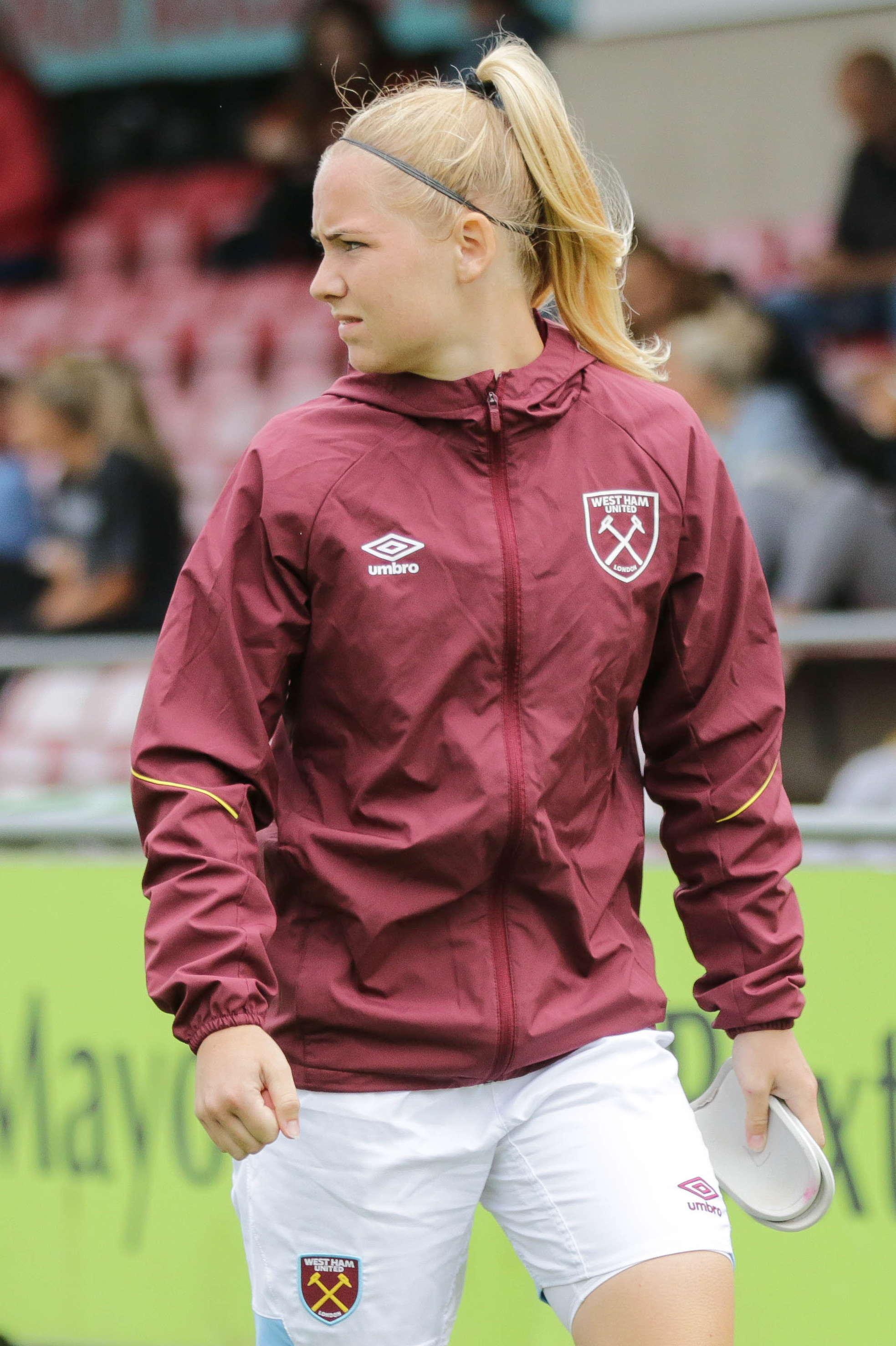 Lewes FC Women 0 West Ham Utd Women 5 pre season 12 08 2018-590.jpg